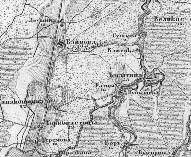 Losytino village on the 1915 year map. Novgorod oblast, Russia